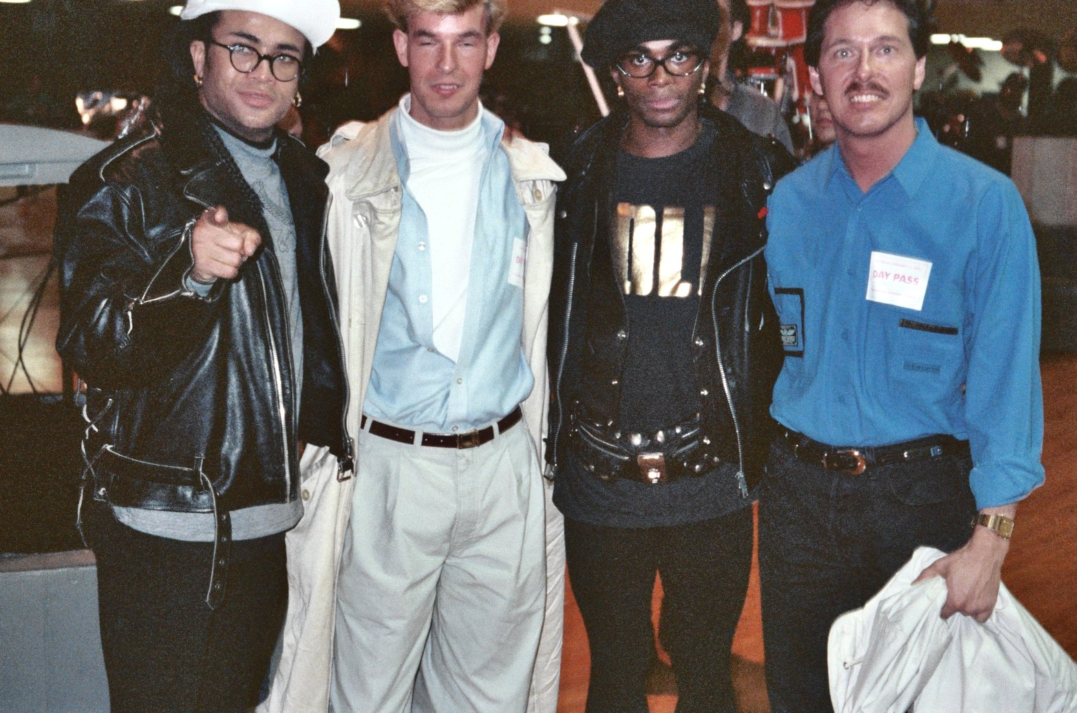 Rob Pilatus (left) and Fab Morvan (third from left) pose with Jeff Crawford and Rick Best at the 1990 Grammy Awards - rehearsal - February, 1990 NOTE: Permission granted to copy, publish, broadcast or post any of my photos, but please credit "photo by Alan Light" if you can. Thanks. Scanned from the original 35MM film negative.